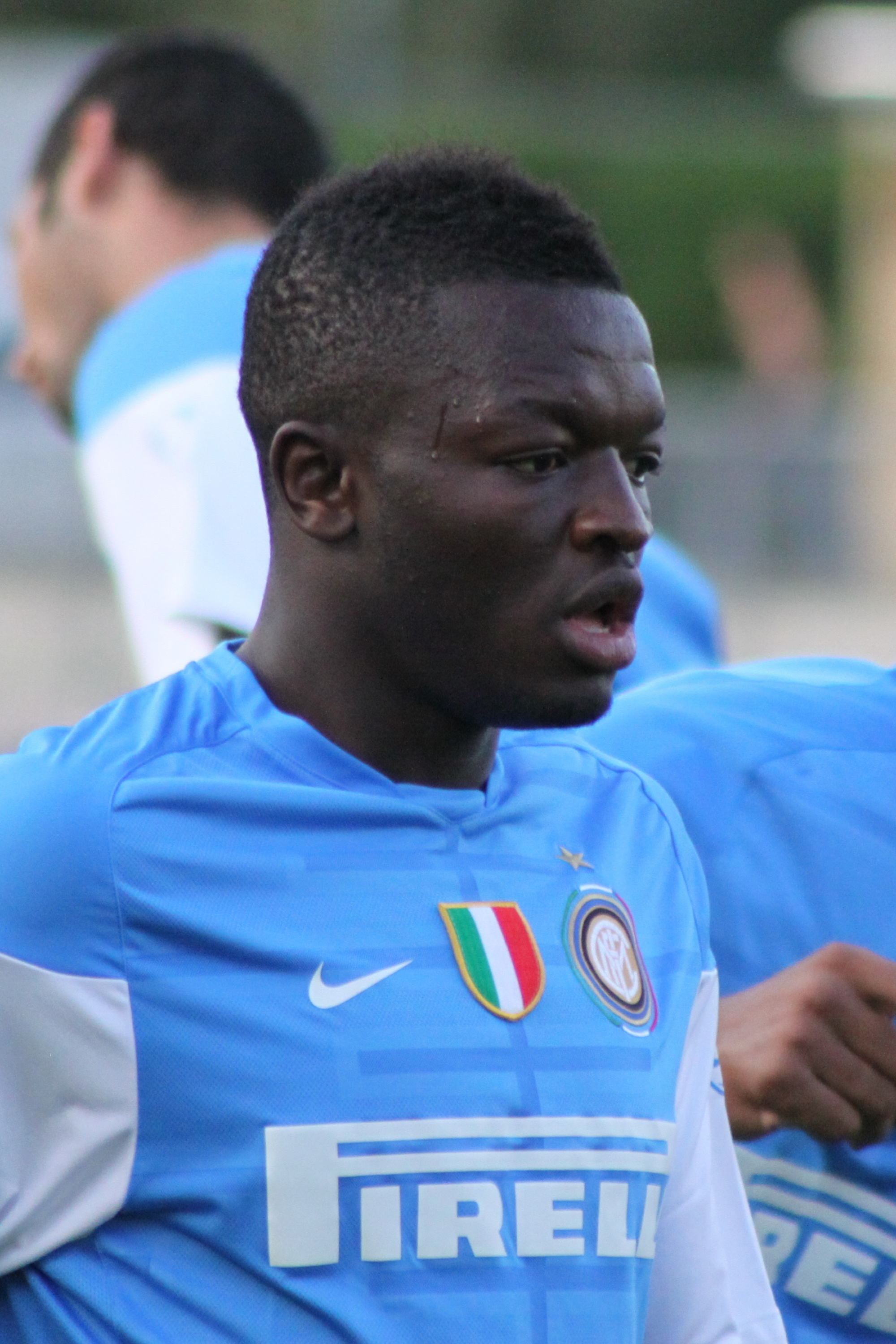 Sulley Muntari - F.C. Internazionale Milano